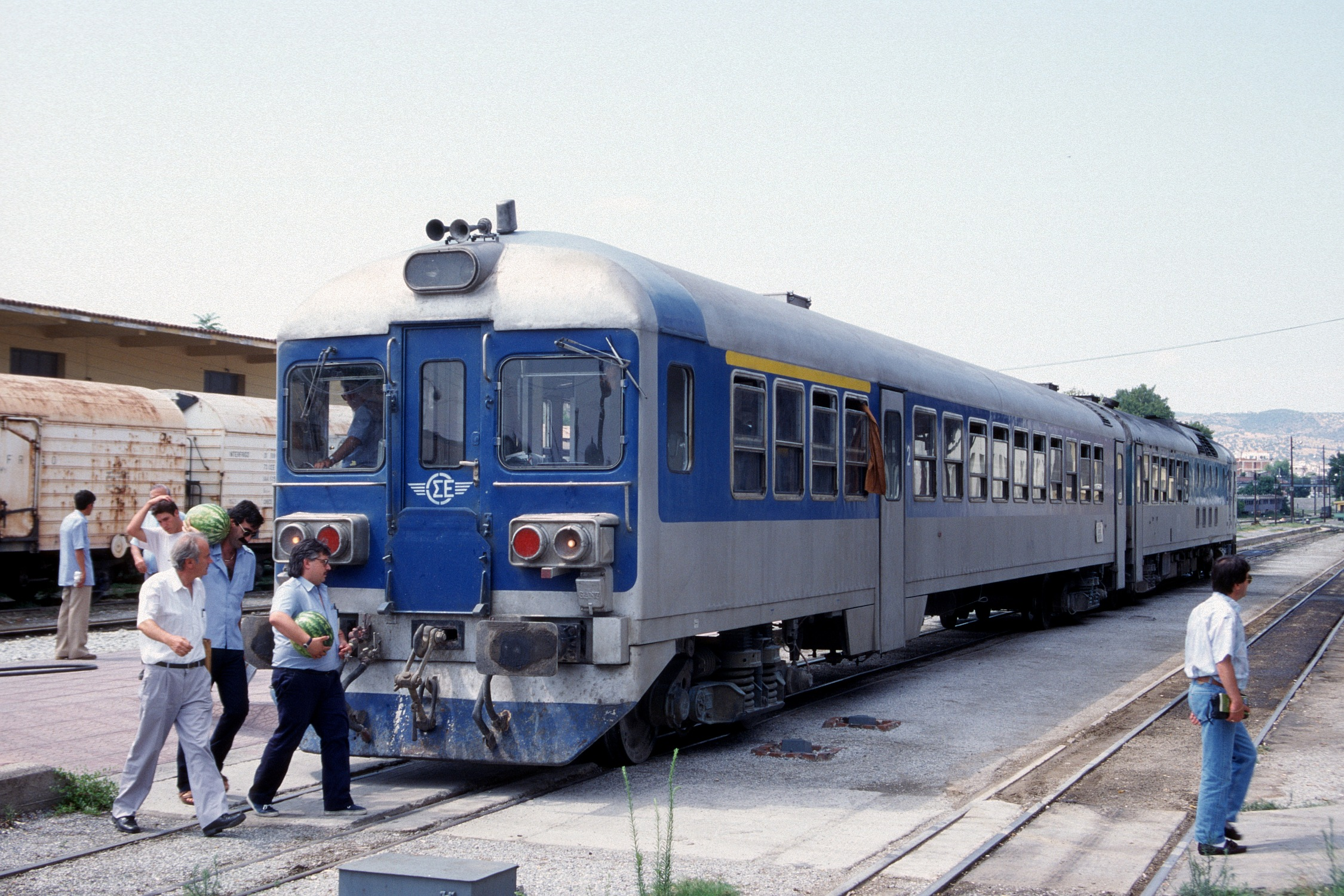 An AA-class DMU in Volos station. This class of DMUs was built by Ganz-MAVAG in the 1970ies.